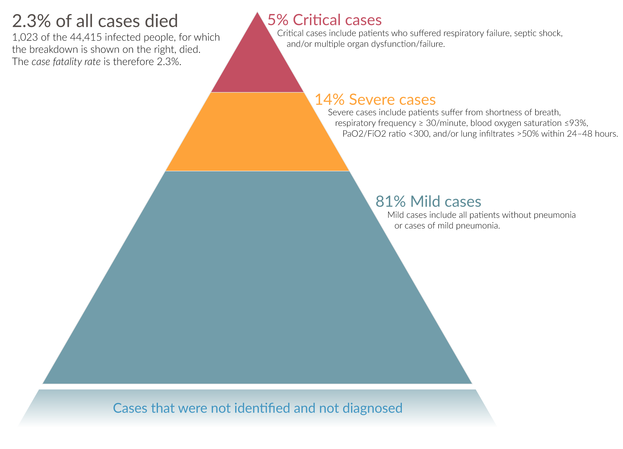 The severity of diagnosed COVID-19 cases in China (*Death Rate is based on CONFIRMED CASES. This value can not possibly represent an accurate percentage since only the sickest people are tested for COVID-19)